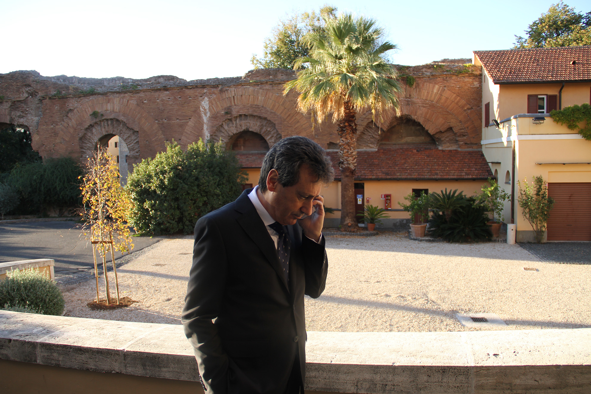 Rome 24 October 2017 - Ambassador Jill Morris hosted the launch of the new editorial project directed by Francesco De Leo il Club . Good luck Francesco! (c) Photos by Ubaldo Cillo.